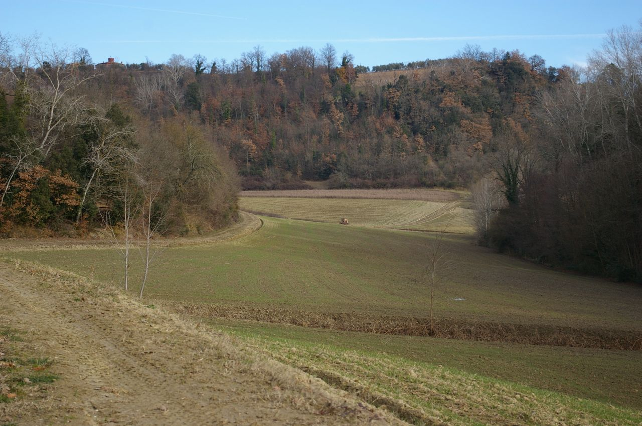 Winter landscape of Tuscany (near Castelfiorentino)